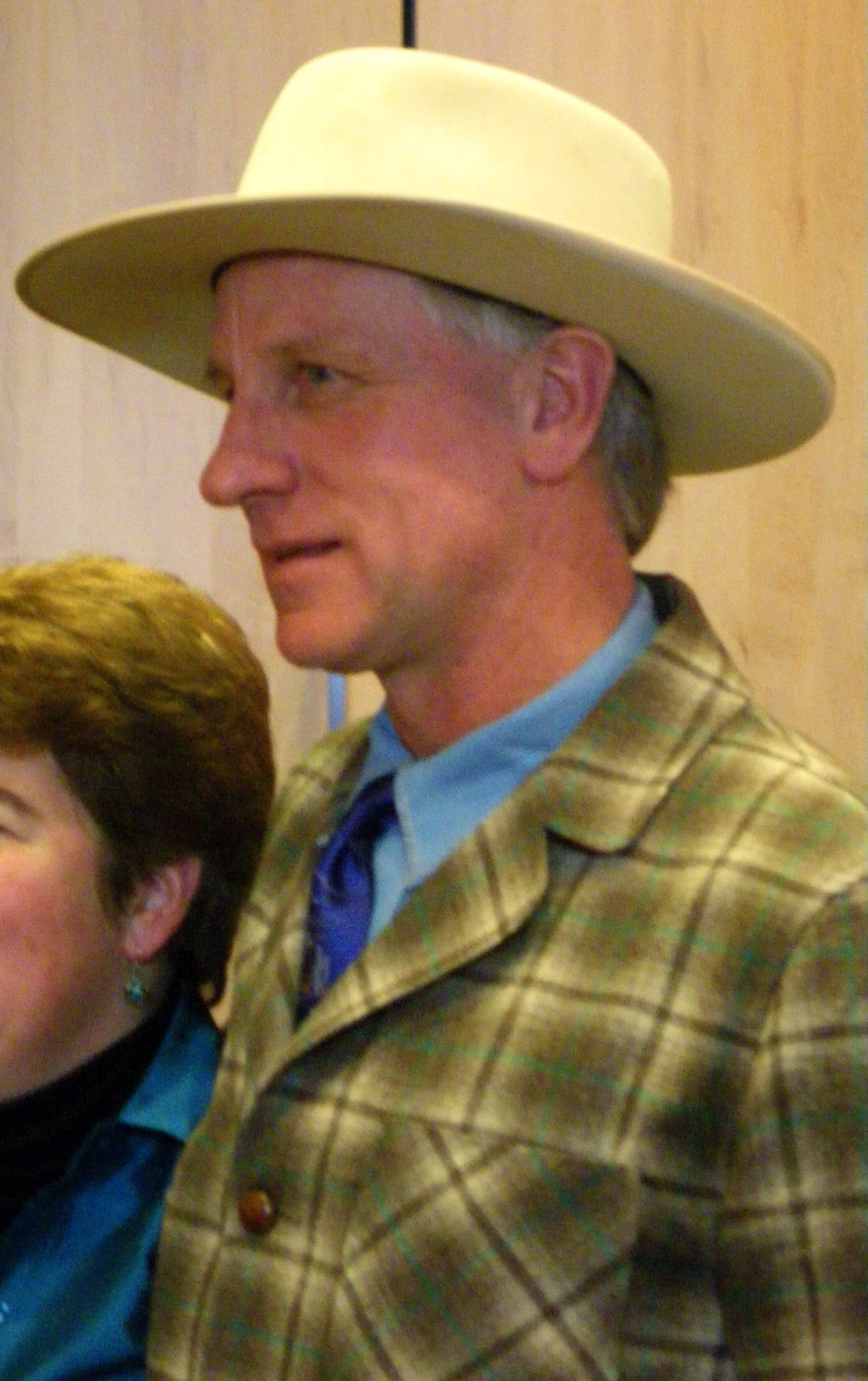 American horse trainer Buck Brannaman, at the 2011 Sundance film festival, as Buck wins the U.S. audience documentary prize.